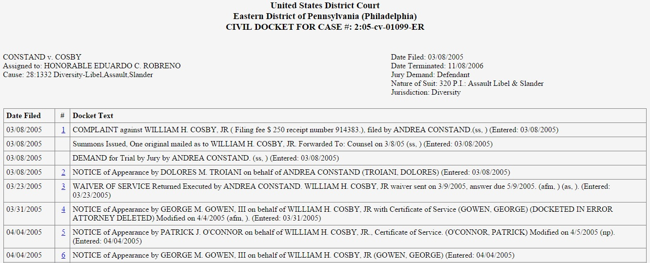 Andrea Constand v. William H. Cosby, Jr. United States District Court for the Eastern District of Pennsylvania. (Case also known as Constand v. Cosby). Case No. 2:05-cv-01099. Judge Honorable Eduardo C. Robreno. Filed March 8, 2005. Nature of Suit 320 Assault, Libel & Slander. Cause of Action: 28:1332 Diversity-Libel,Assault,Slander. Court: Pennsylvania Eastern District Court. Office: Philadelphia Office. Jury Demanded By: Defendant. Docket available at Docketalarm, and Archived at the Internet Archive.